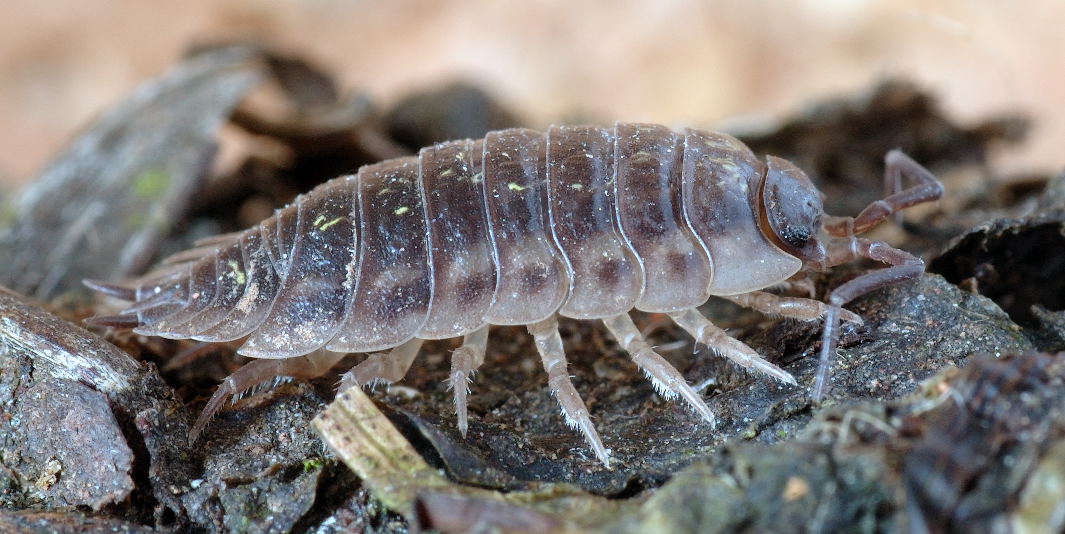 This image shows a 0.4 inch (10 mm) large male Common woodlouse (Oniscus asellus).